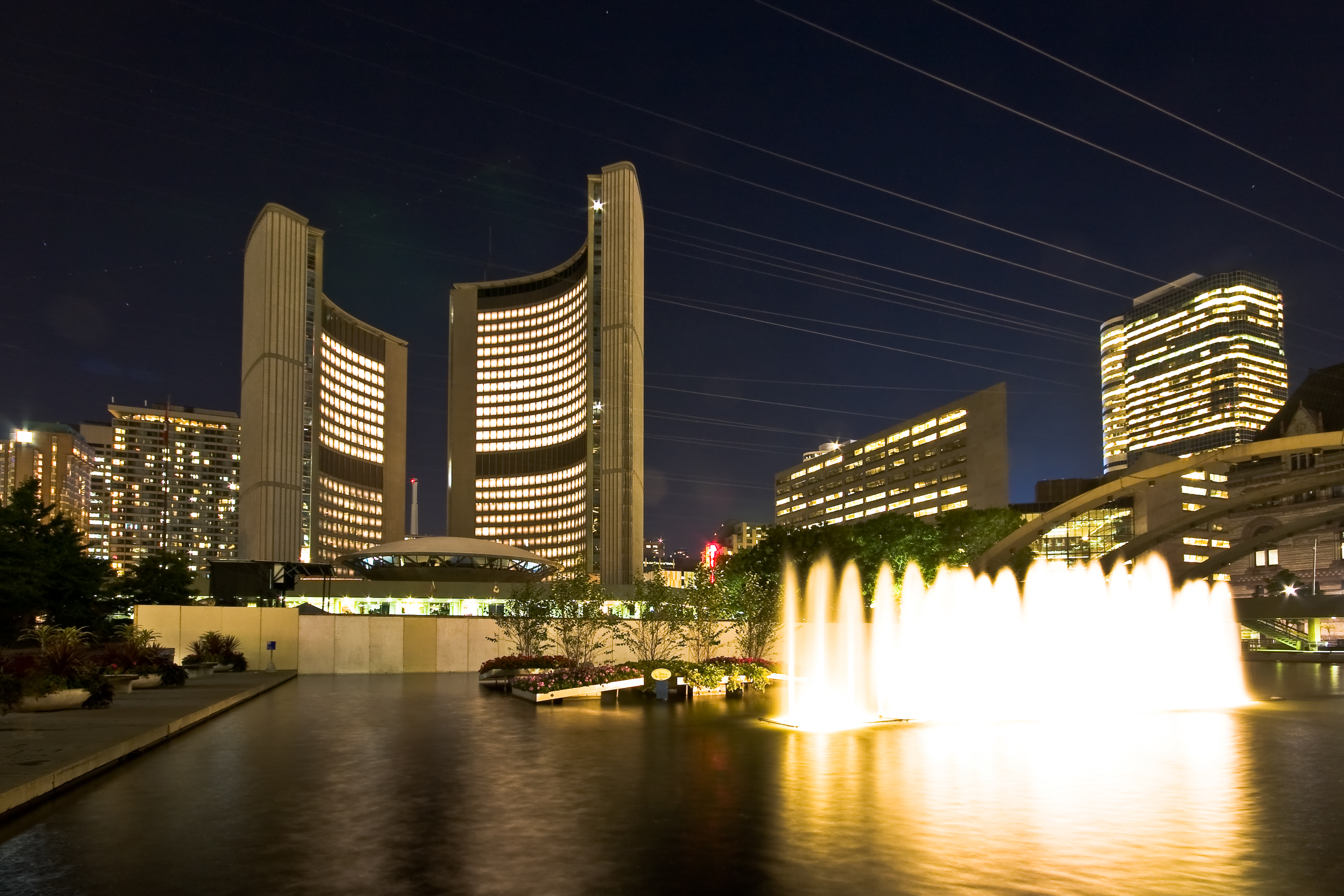 Night view of the Toronto City Hall